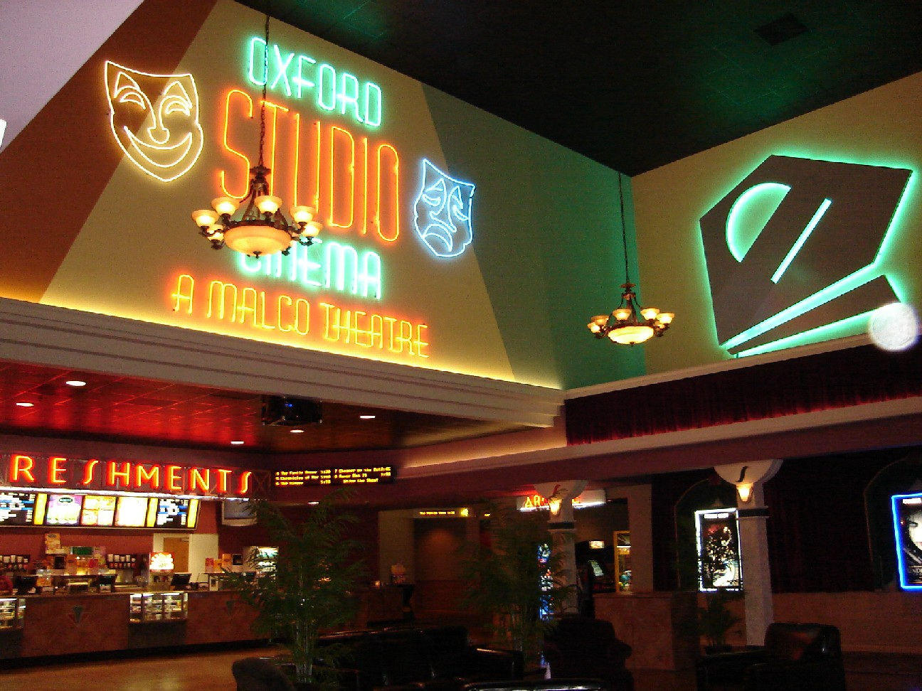 Inside of the Malco Oxford Studio Cinema. Picture taken by A. Nathan McDaniel 2006.